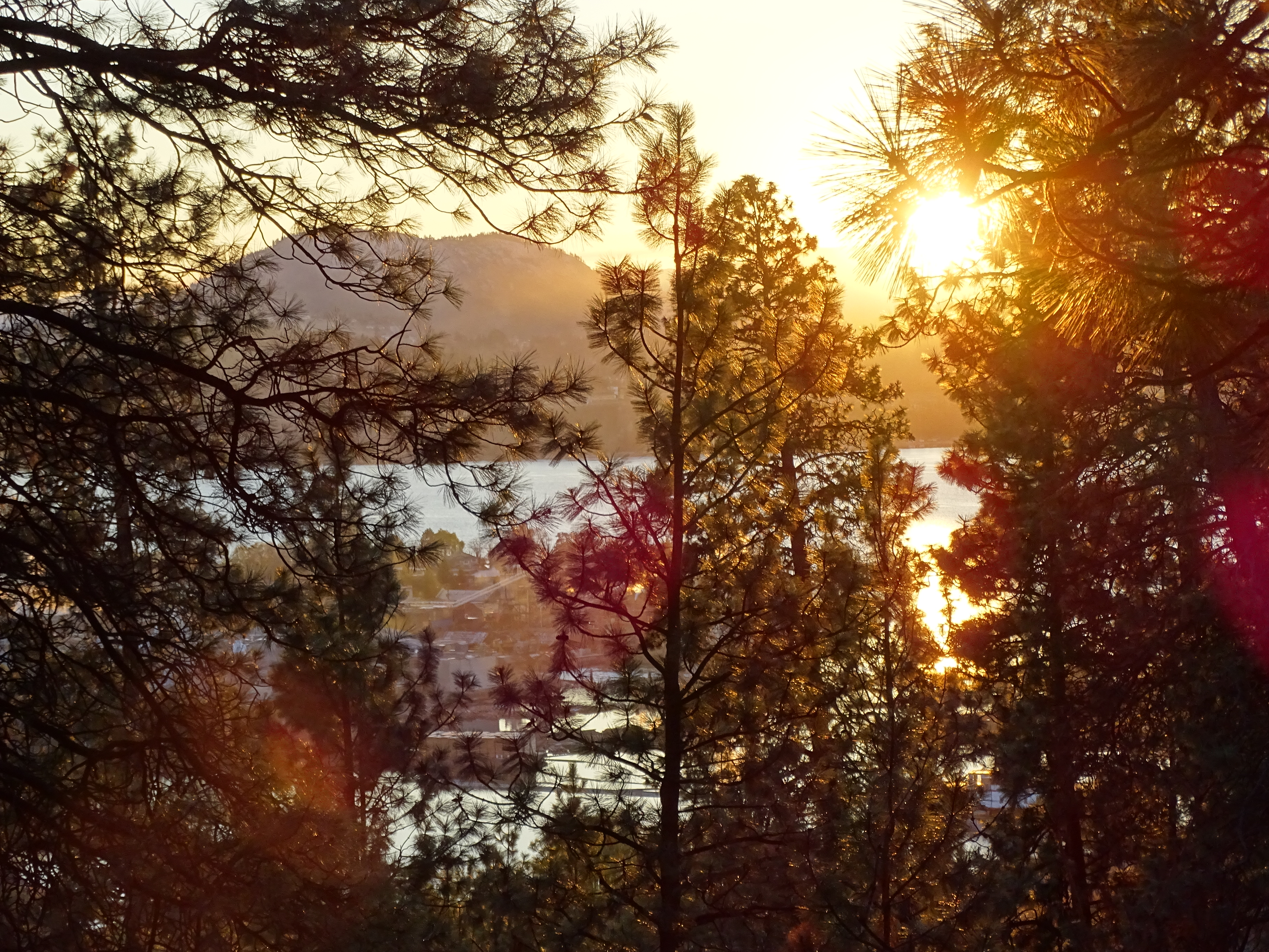 Knox Mountain - Kelowna - British Columbia - Canada - 22